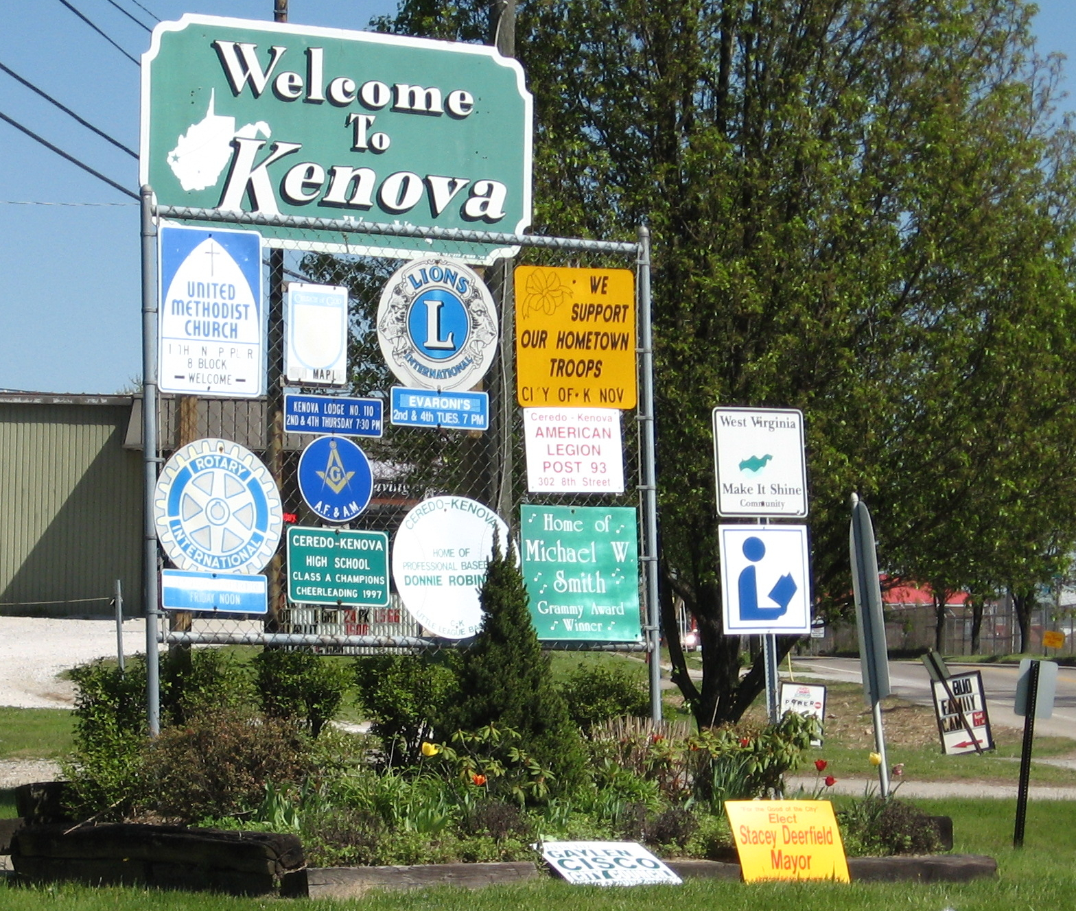 Photo of the welcome sign in Kenova, West Virginia located just east of the border with Kentucky.